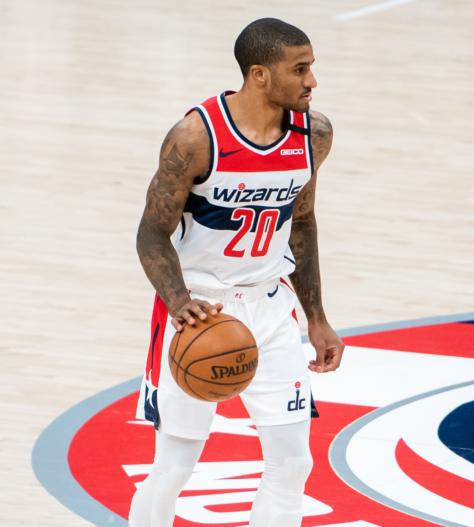 Gary Payton II of the Washington Wizards